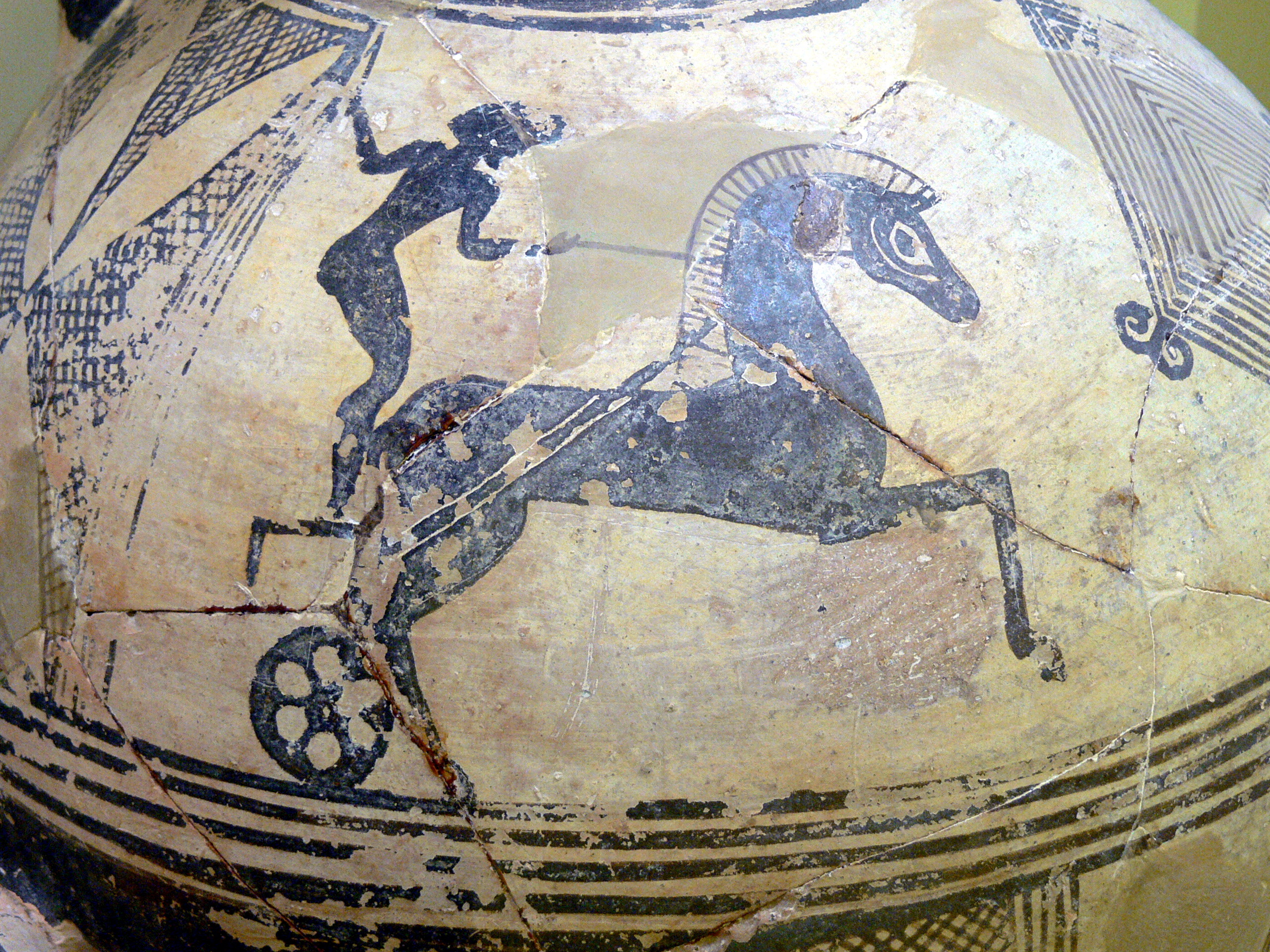 Archaeological Museum in Herakleion. Representation of a chariot race on a clay hydria. Early Archaic period ( 7th c. B.C. )